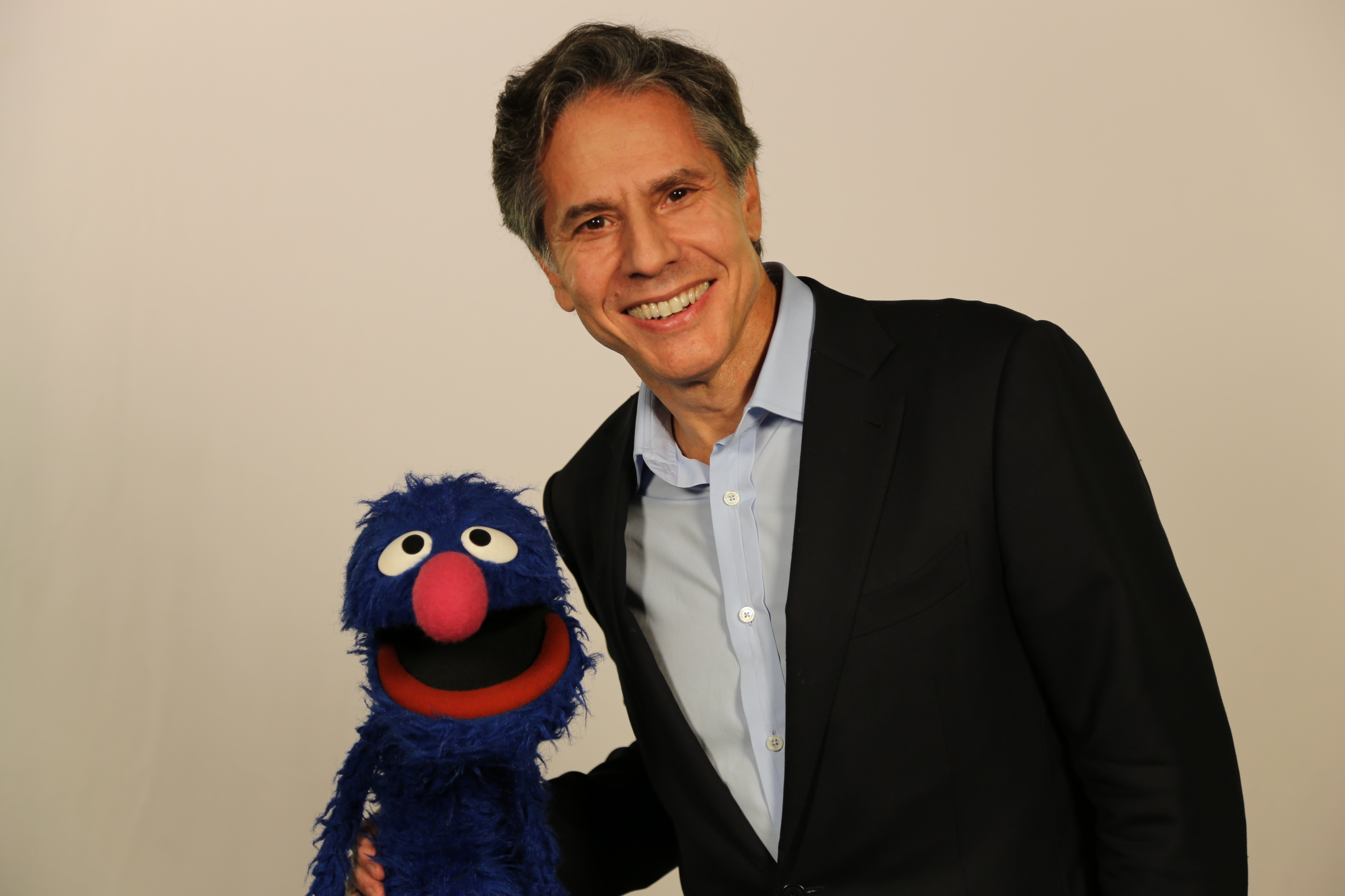 Deputy Secretary of State Antony Blinken meets with Sesame Street's "Grover" to talk about refugees at the United Nations in New York City, New York on September 19, 2016. [State Department Photo/Public Domain]